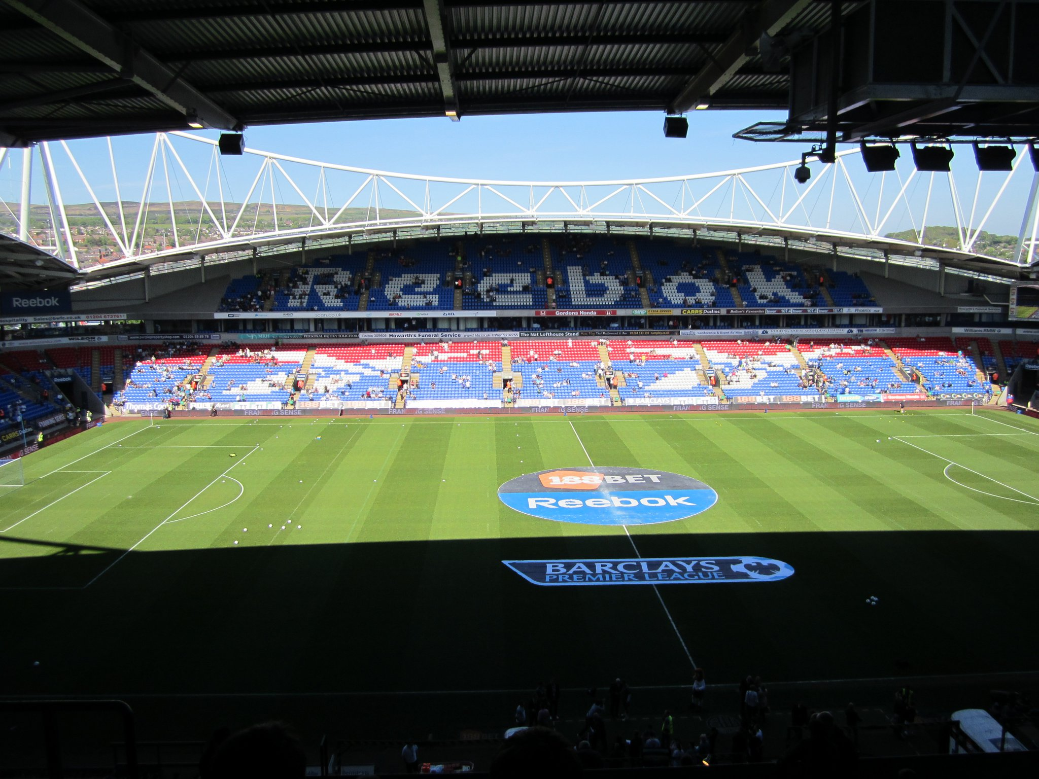 View of the Nat Lofthouse Stand from the West Stand of the Reebok Stadium in Bolton, England.